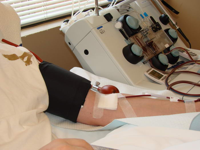 actual Plateletpheresis employing a single line cartridge based, centrifuge machine. Collecting a 'double unit' in this instance. Machine is a Trima brand.